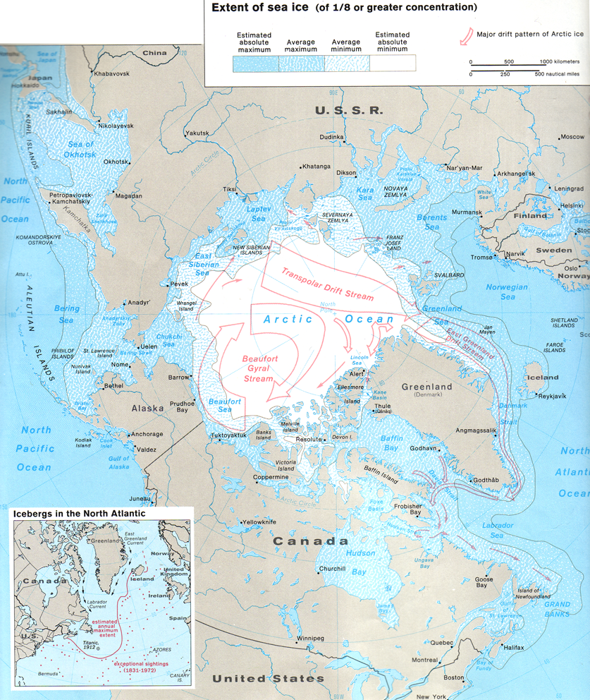 Estimates of the absolute minimum, average minimum, average maximum, and absolute maximum extent of sea ice in the Arctic as of the mid 1970s. Also shows the approximate drift of the sea ice.